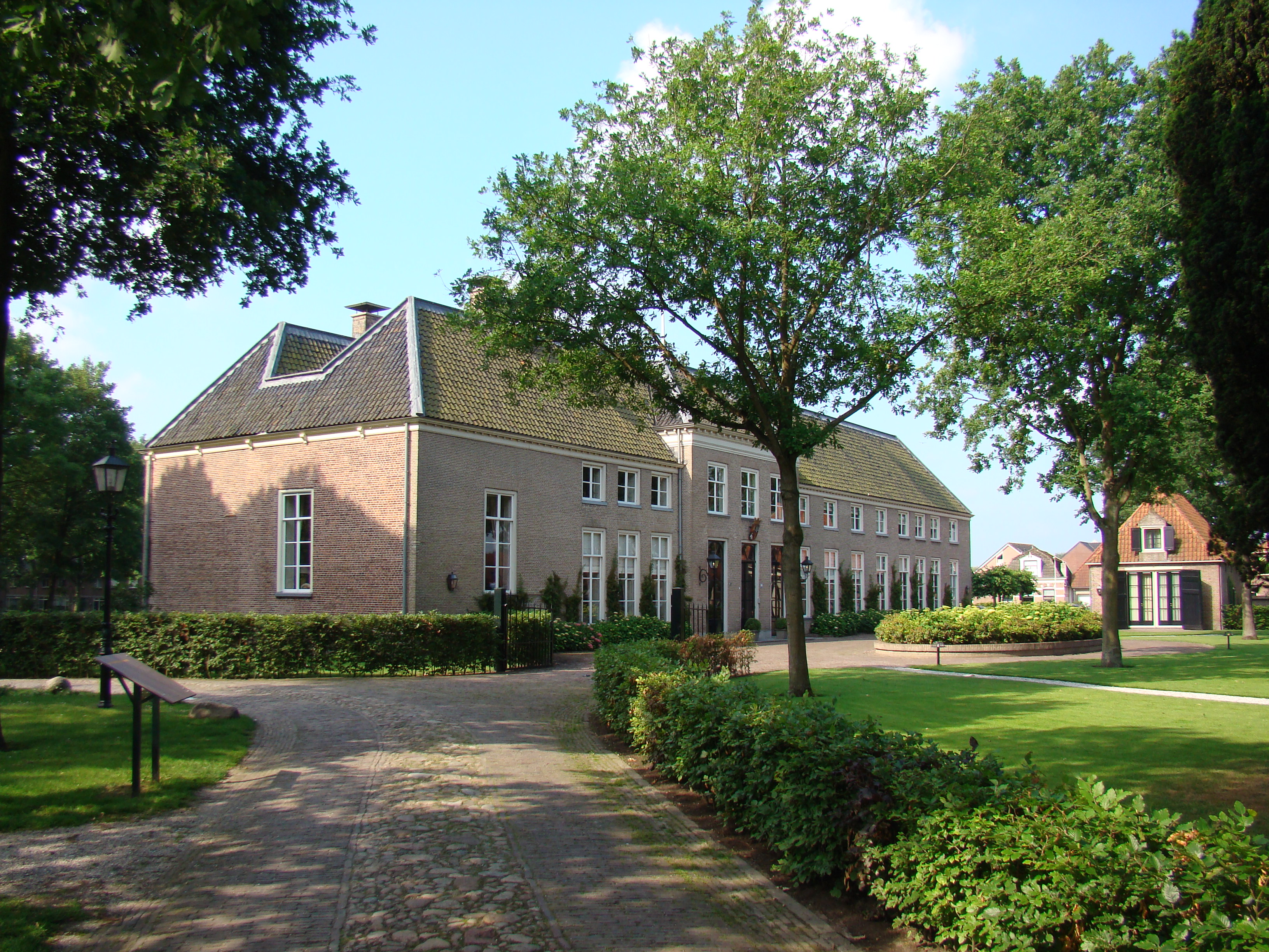 Impressions of Vollenhove